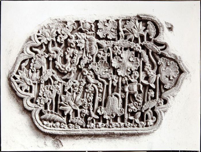 Relief at the Mantingan mosque